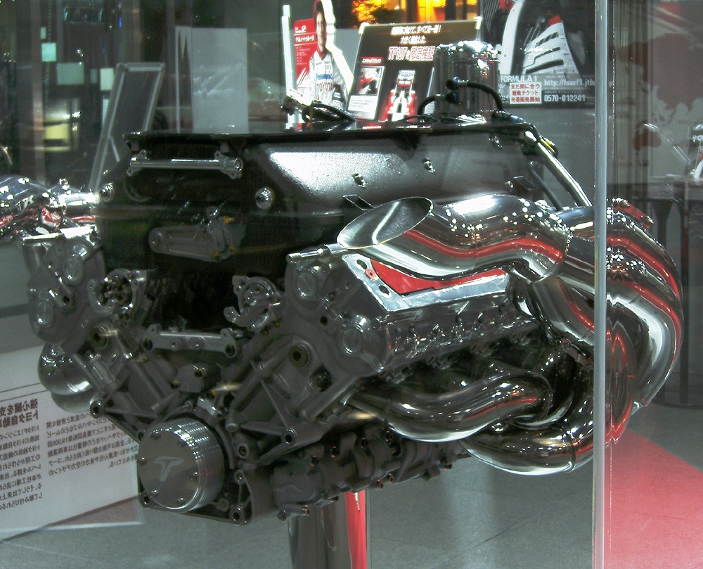 “Toyota Formula One TF101_RVX-01_Engine” ToyotaAmlux,Show room Tokyo, Japan Category:Toyota F1 Toyota F1